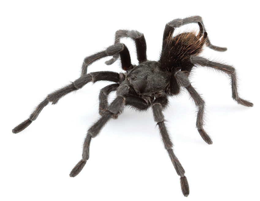 Aphonopelma johnnycashi, male specimen